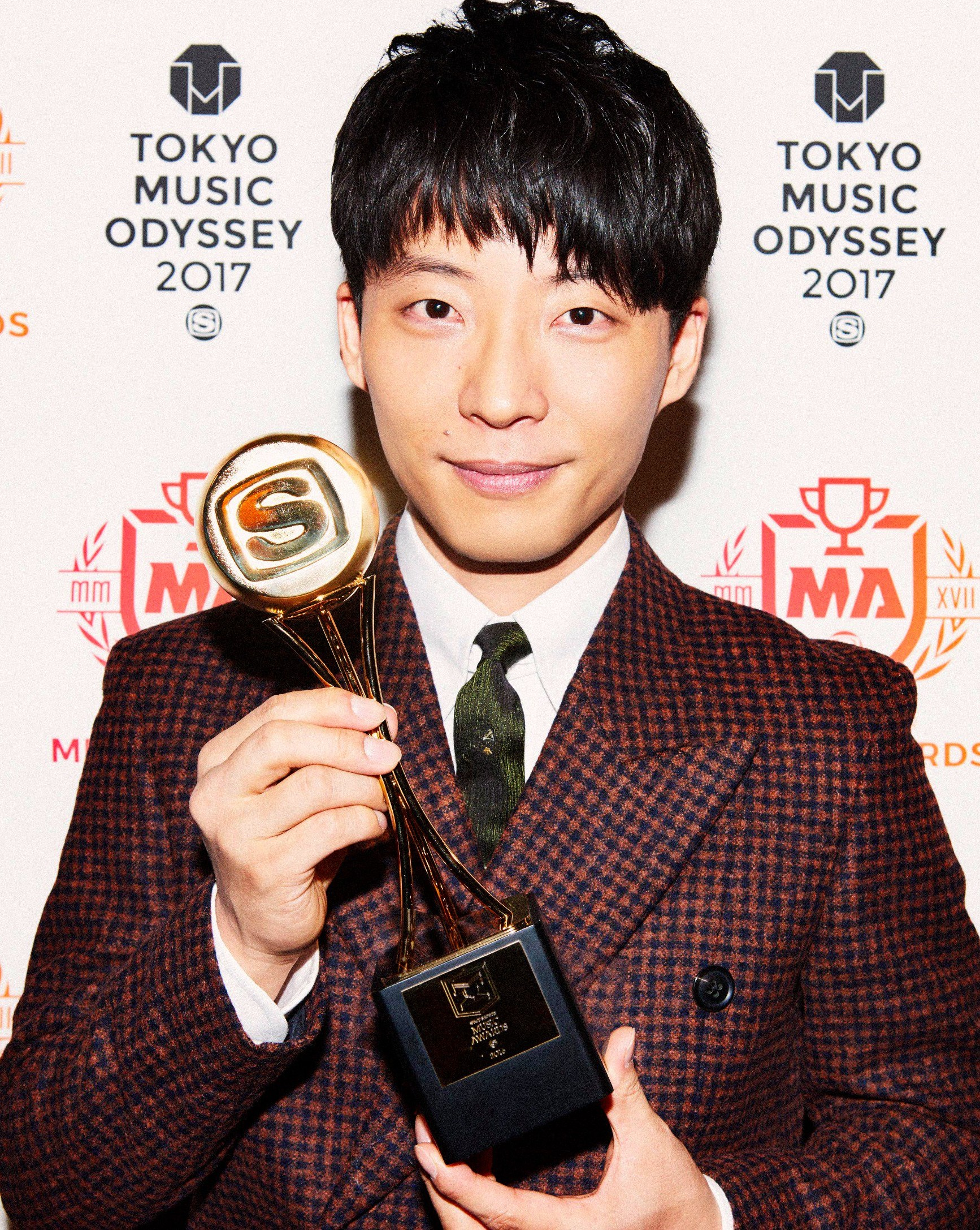 Picture of Gen Hoshino at the Space Shower Music Awards in 2017. Image used to serve as the primary means of visual identification at the top of the article dedicated to the work in question.